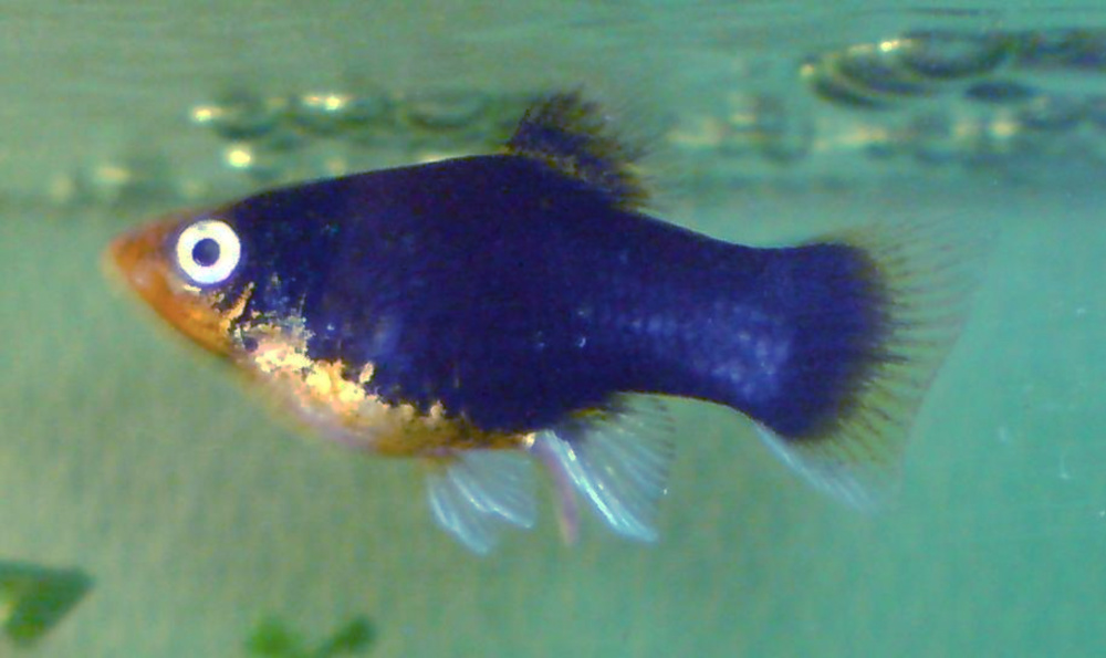 The Southern Platyfish, Common Platy or Moonfish (Xiphophorus maculatus) is a species of freshwater fish in family Poecilidae of order Cyprinodontiformes.